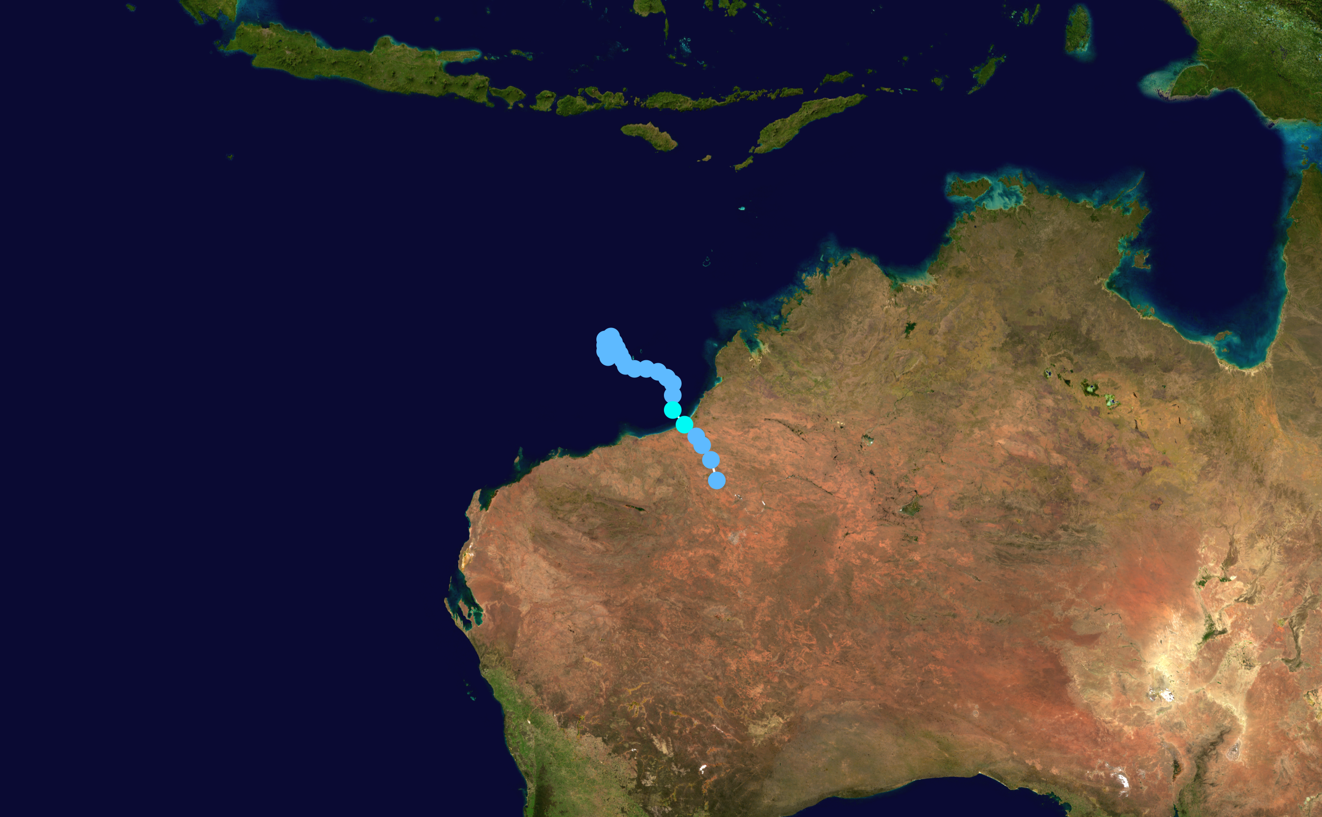 Cyclone Graham (2003) track. Uses the color scheme from the Saffir-Simpson Hurricane Scale.